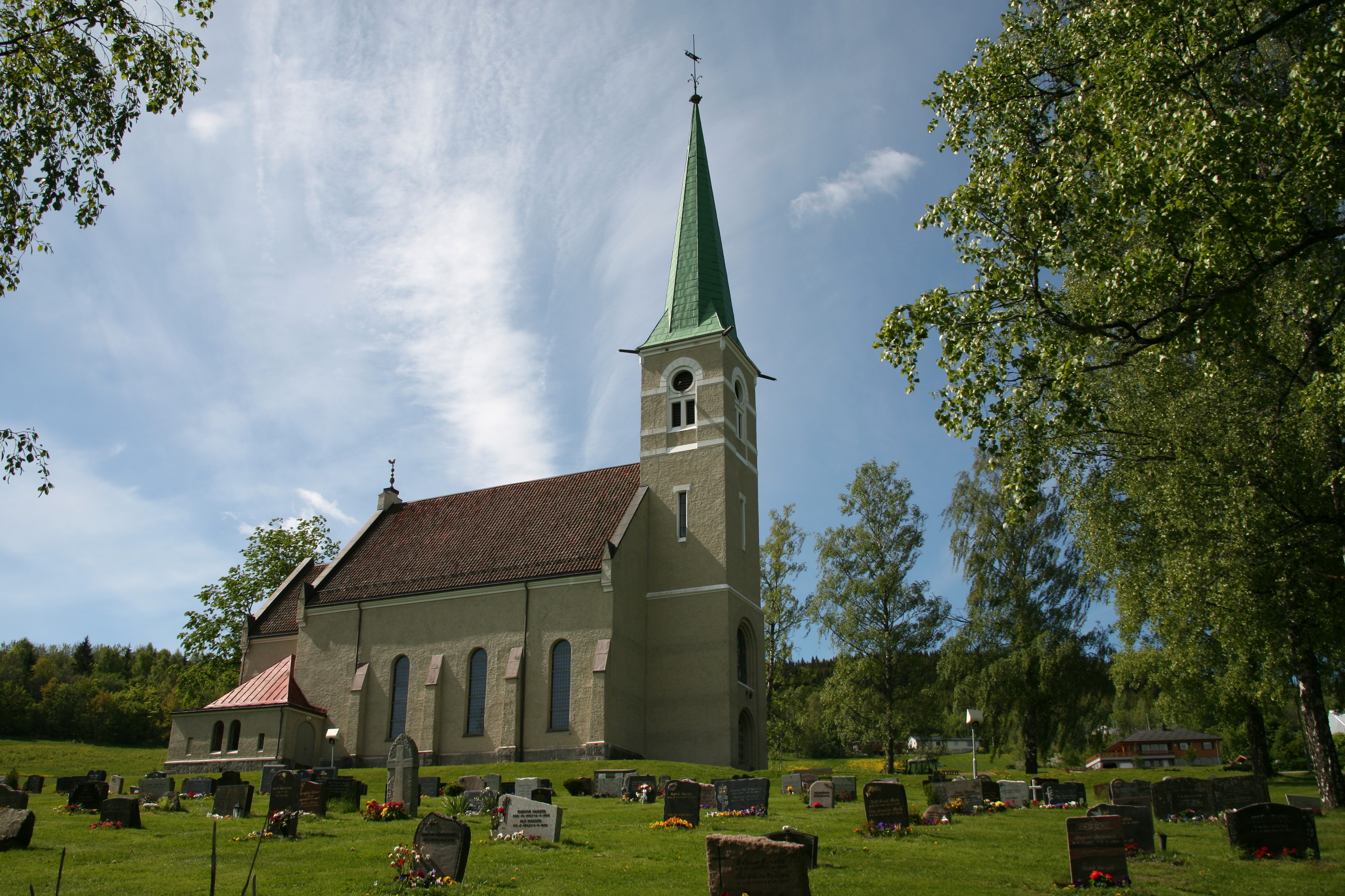 Picture of Sjåstad Church (Buskerud - Norway)